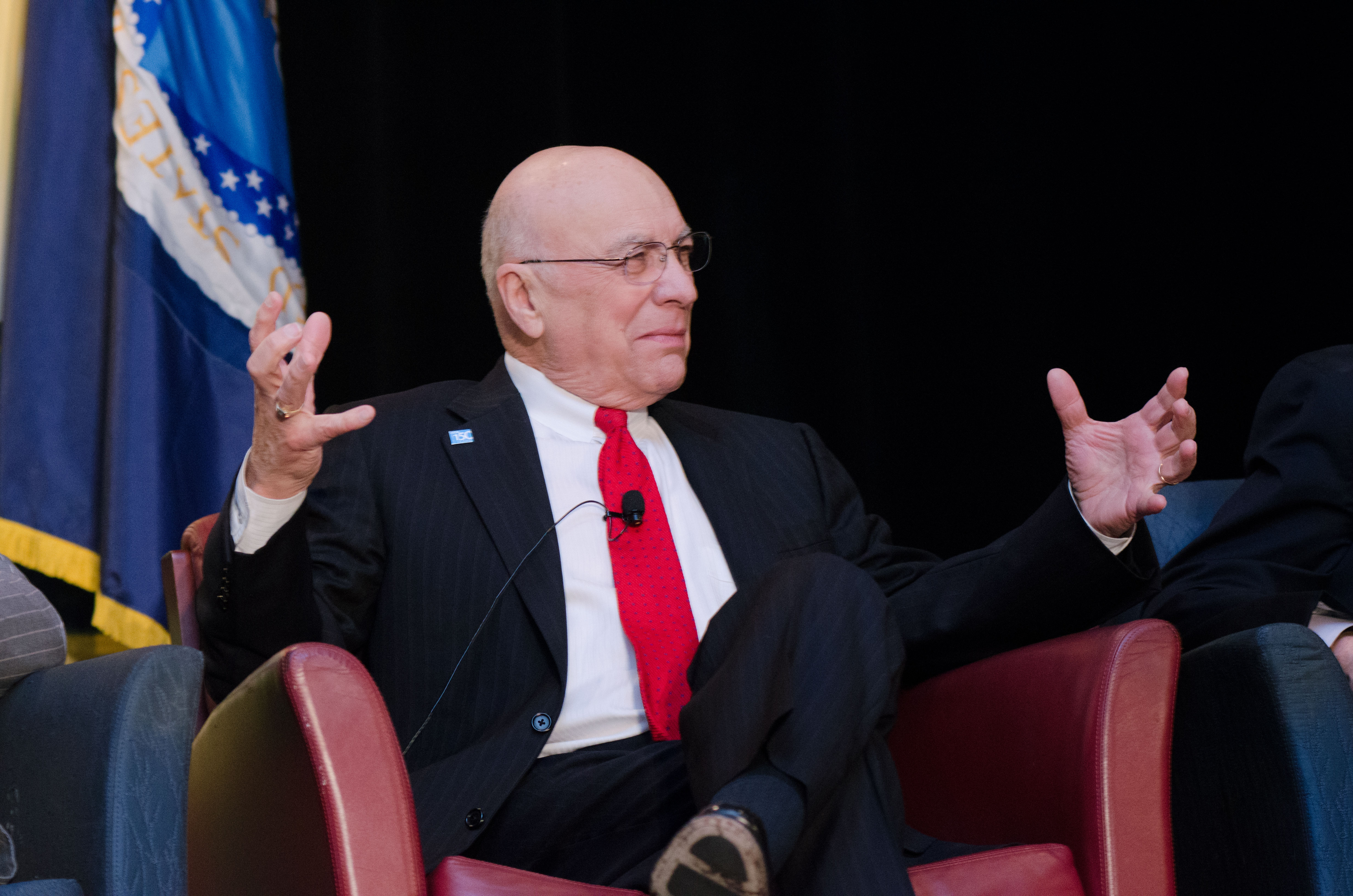 At the 2012 Agricultural Outlook Forum, “Moving Agriculture Forward” in Arlington, VA, on Thursday, February 23, 2012, 7 former Secretaries of Agriculture sat on the plenary panel “Visions of the Future” hosted by current Agriculture Secretary Tom Vilsack. Clayton Yeutter speaks out during the panel discussions. USDA photo by Lance Cheung.